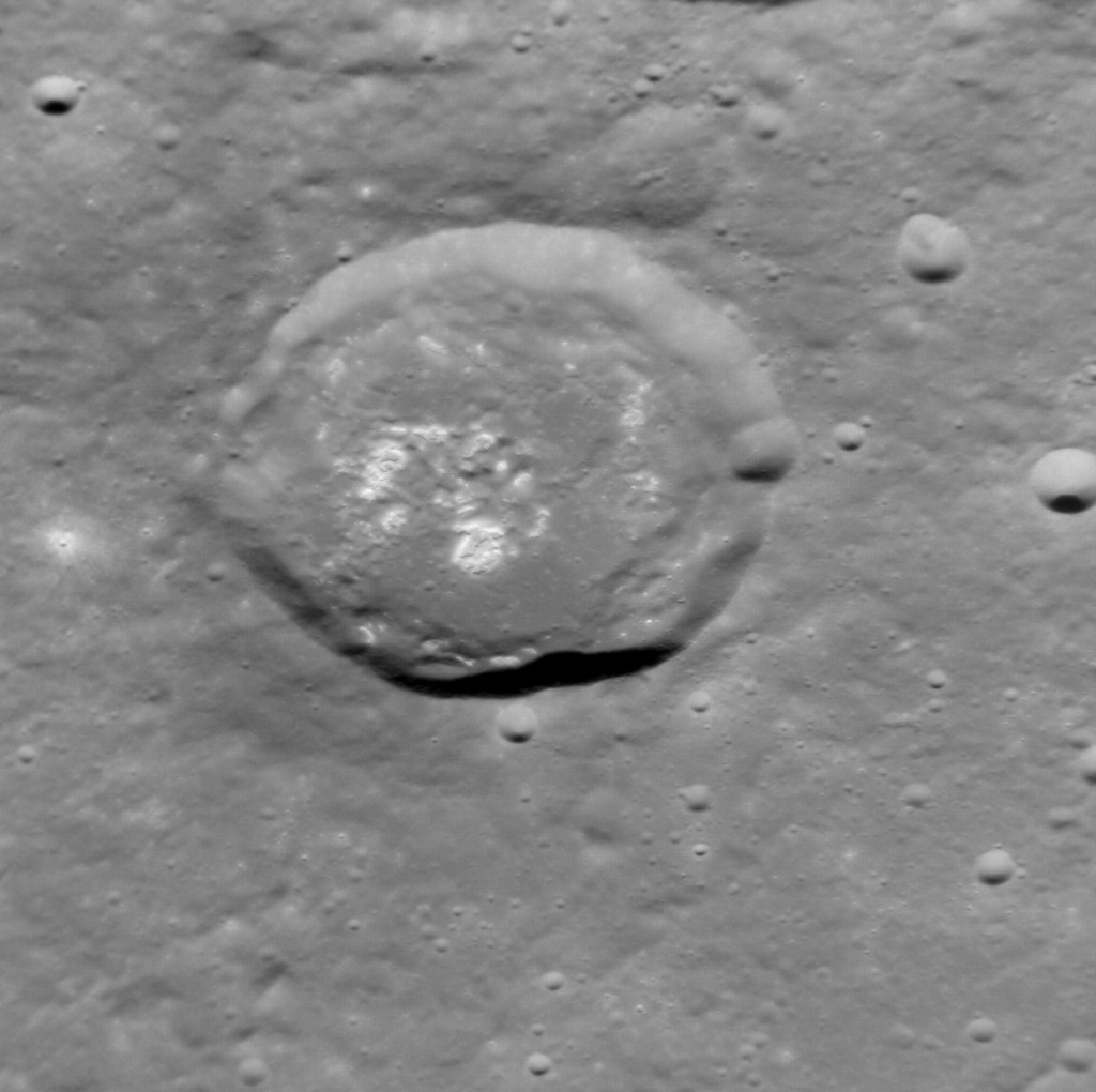 Oblique view of Wergeland crater on Mercury. MESSENGER Narrow Angle Camera. North is at right. Emission Angle: 33.0 Incidence Angle: 63.8 Latitude: -37.8 Longitude: 303.9 Phase Angle: 30.8